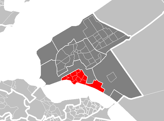 Districts in Almere